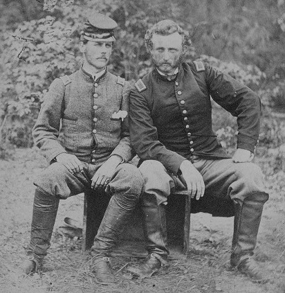 Fair Oaks, Va. Lt. James B. Washington, a Confederate prisoner, with Capt. George A. Custer of the 5th Cavalry, U.S.A. Note: Union army officer George Armstrong Custer, right, encountered numerous West Point classmates fighting for the Confederacy during the Civil War. Here he is shown with captured Confederate Lt. James B. Washington just days after Custer found another classmate, Capt. John Willis Lea, among the wounded following the Battle of Williamsburg, The Library of Congress